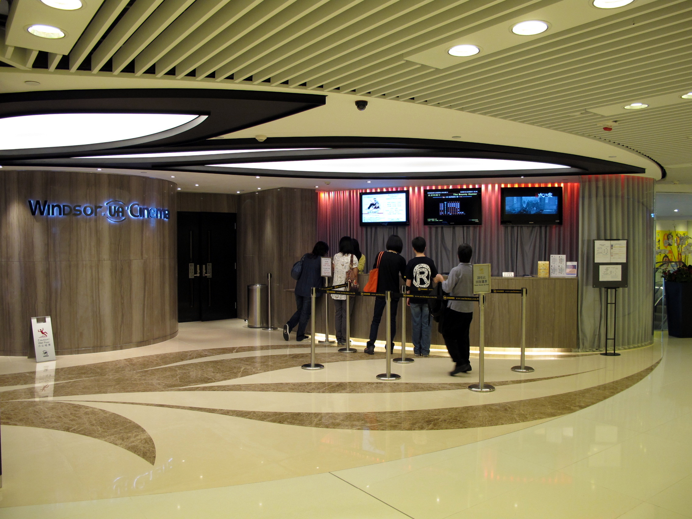 Windsor UA Cinema